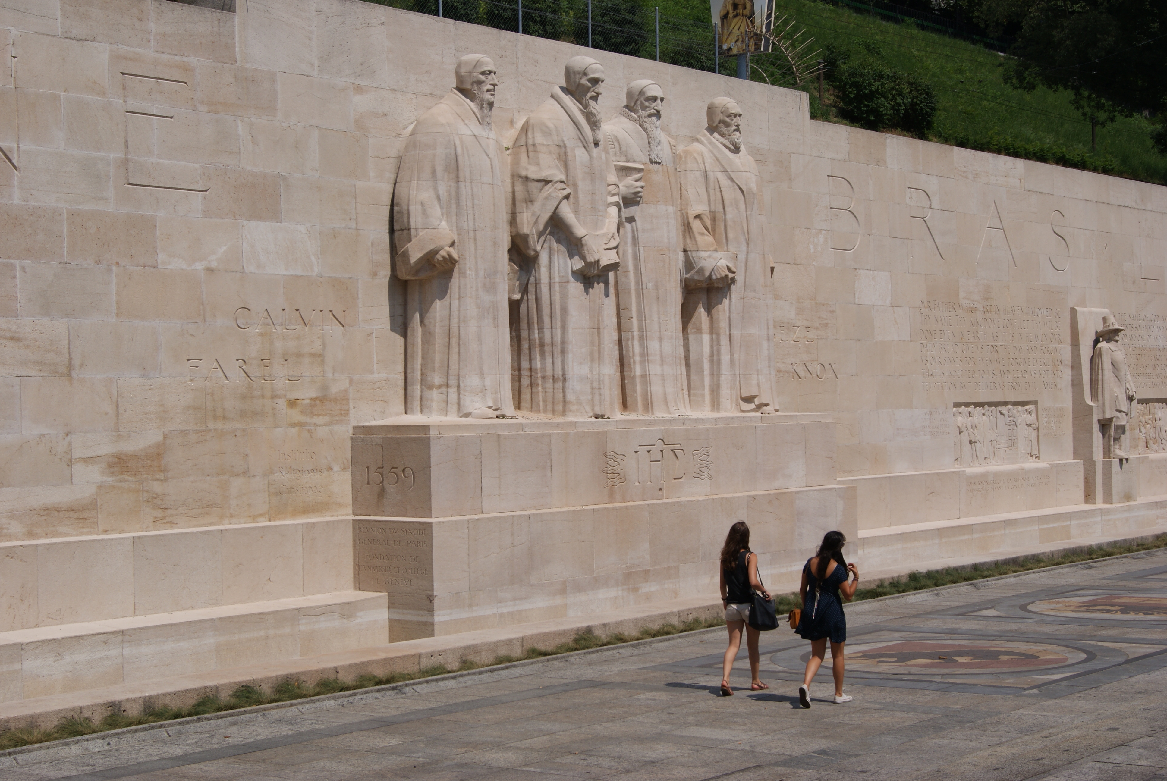 The Reformation Wall in Geneva, Switzerland.